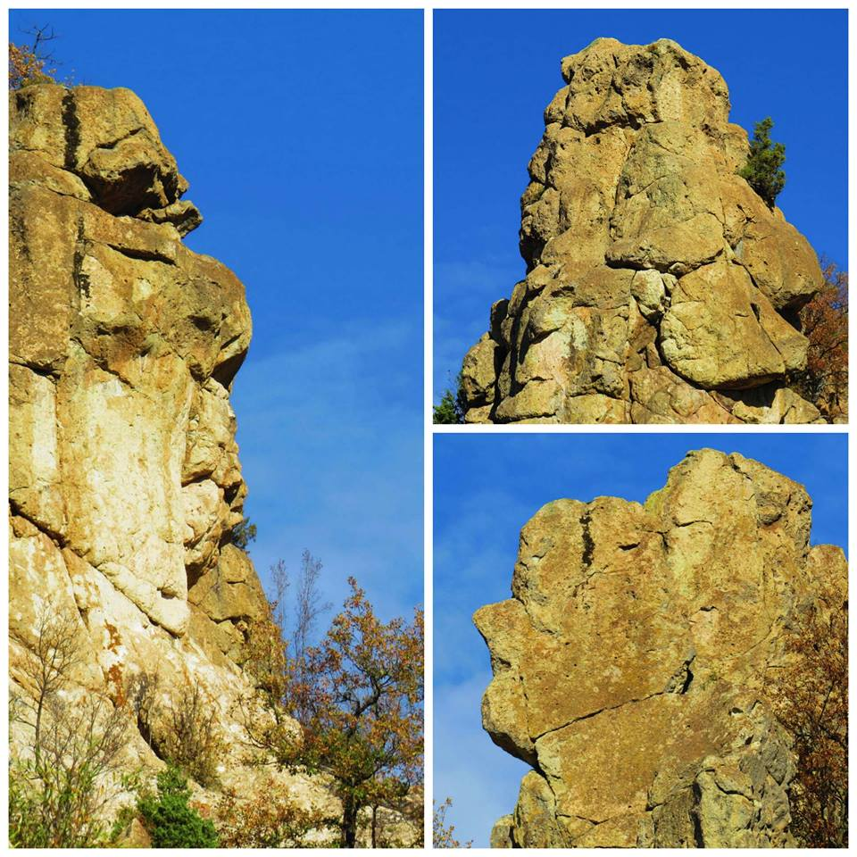 Kyuchuk_Beyug_Kazan_Rhodopes_Bulgaria